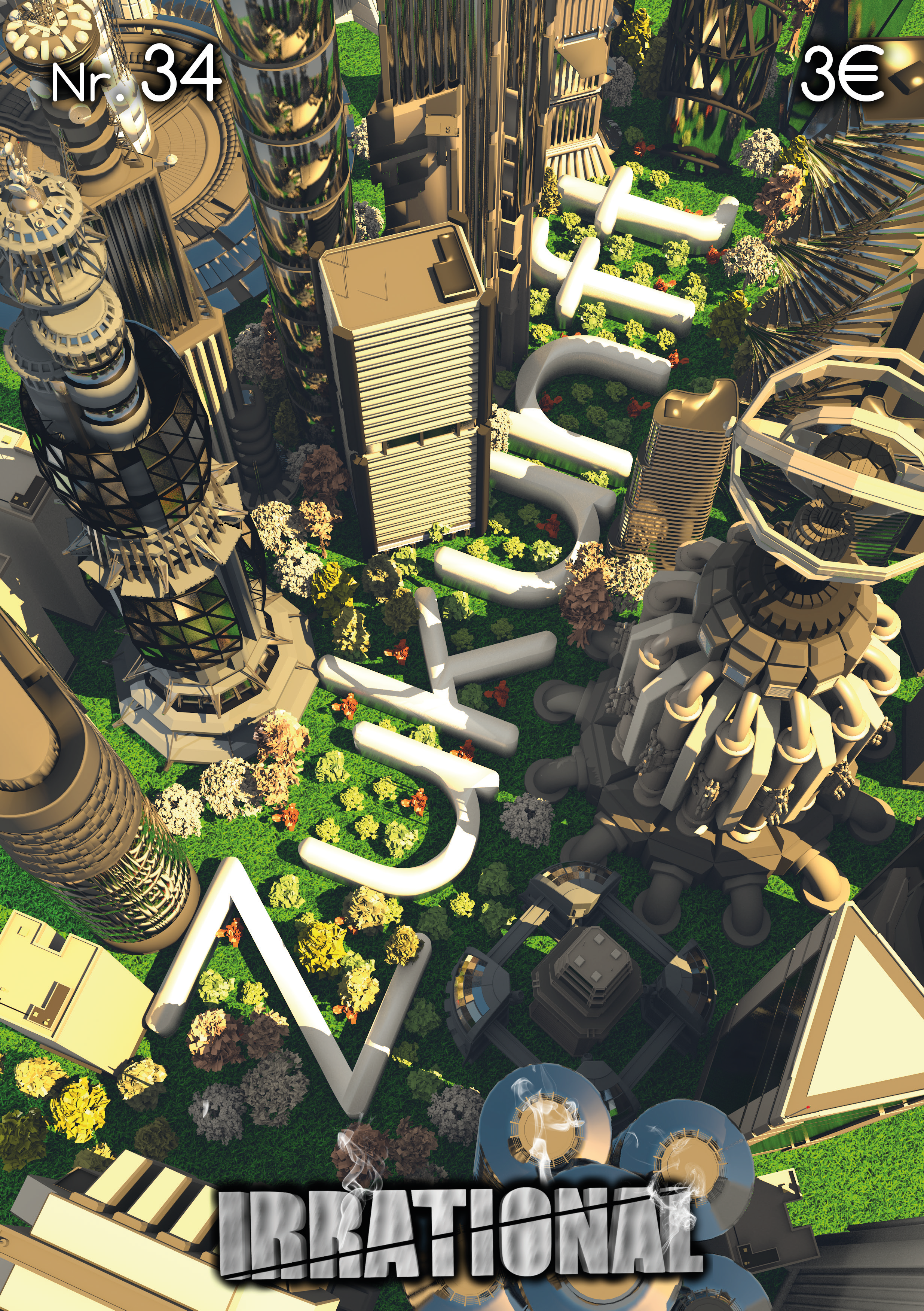 Cover of the school newspaper Irrational of the Holbein-Gymnasium Augsburg 2014 Issue 34